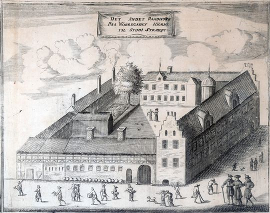 The second city hall in Copenhagen, Denmark as Erik Pontopidan imagined it. It was located on the corner of Nørregade and Studiestræde and later served as Bishop's Palace until it burned in 1728 and was replaced by a new Building on the same site.